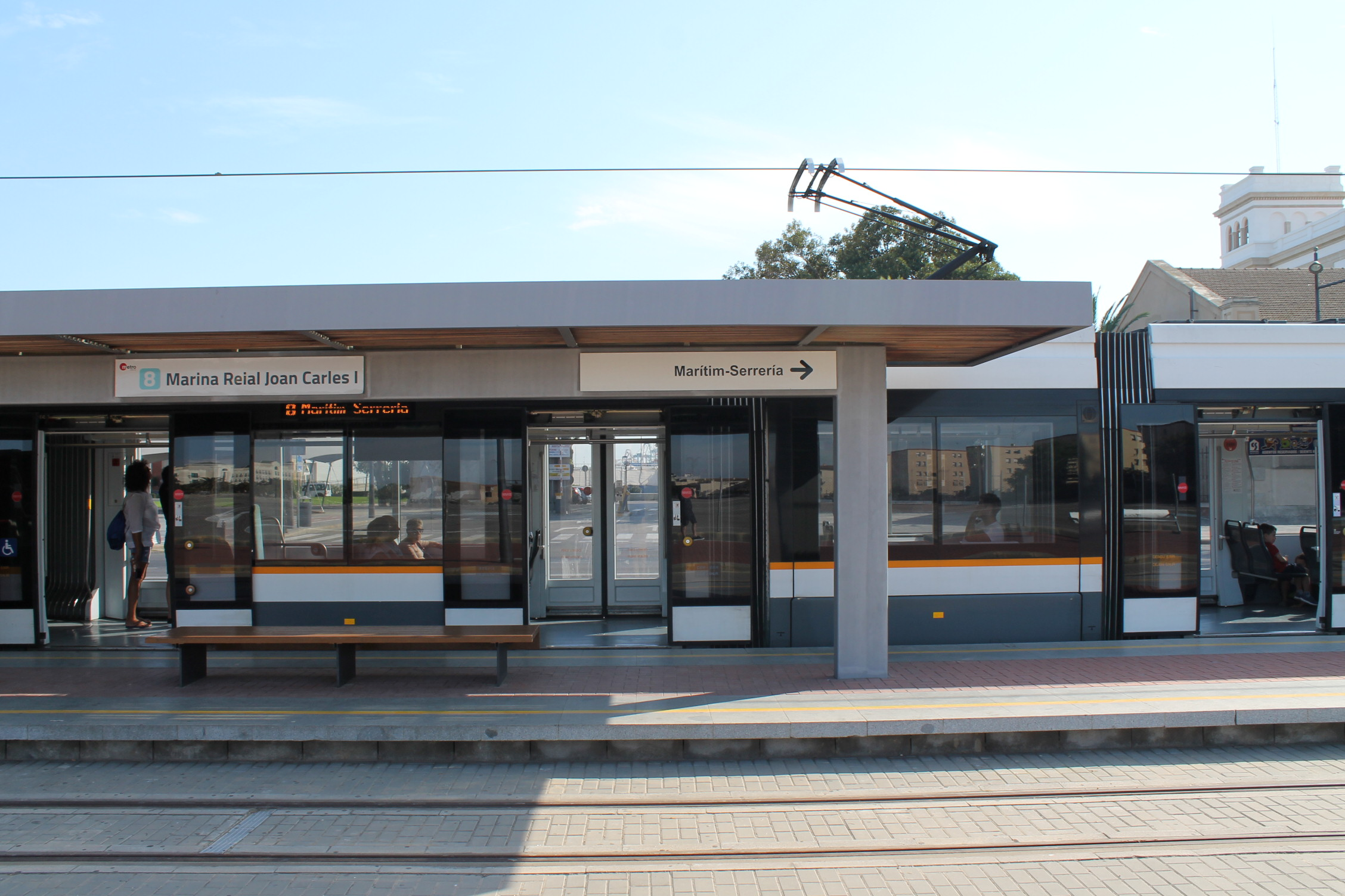 Platform of the Marina Reial Joan Carles I station of Metrovalencia.